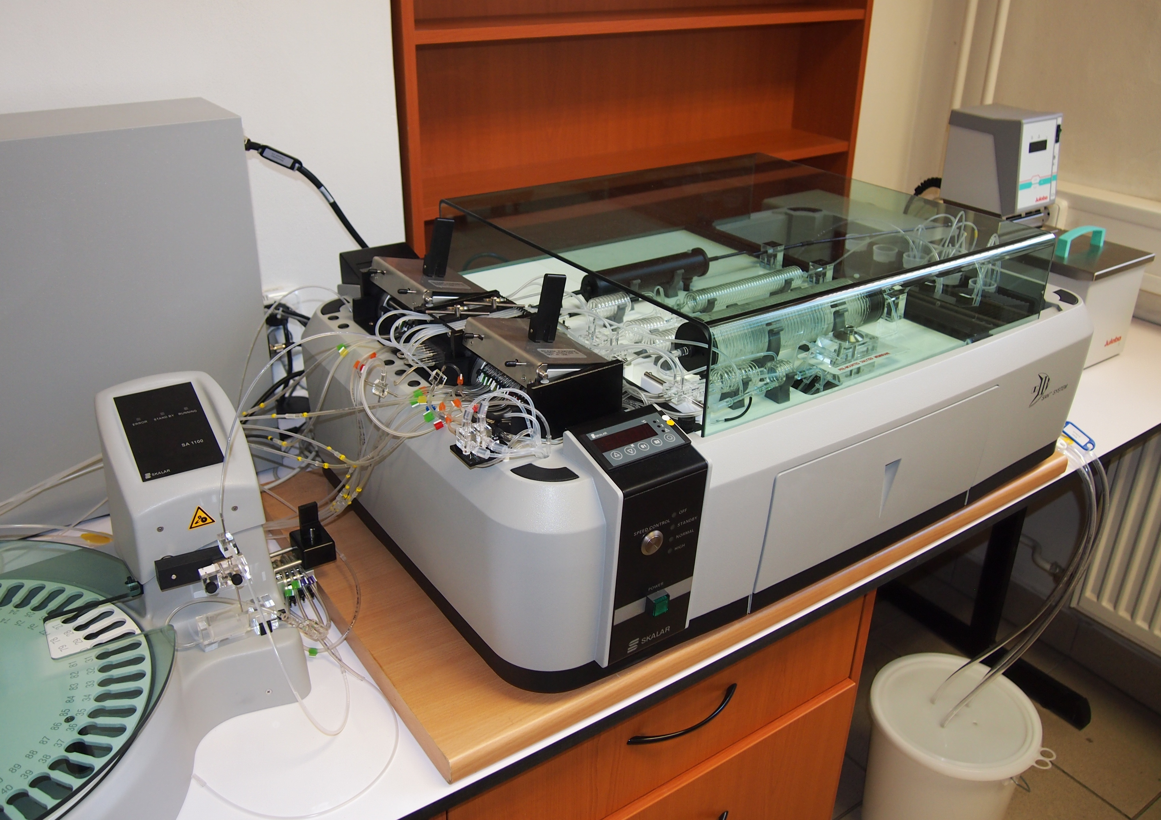 AutoAnalyzer in Research Institute of Brewery and Malting, Prague.